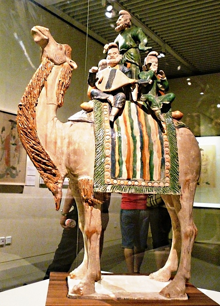 Foreign musicians on camel. Sancai glaze. 723 CE